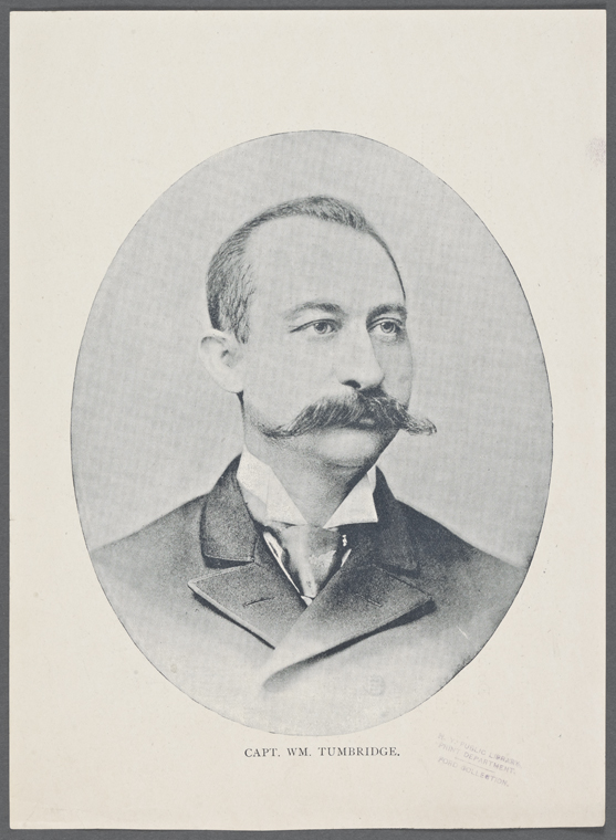 Portrait of the founder and proprietor of the Hotel St. George starting in 1885. Union navy captain.